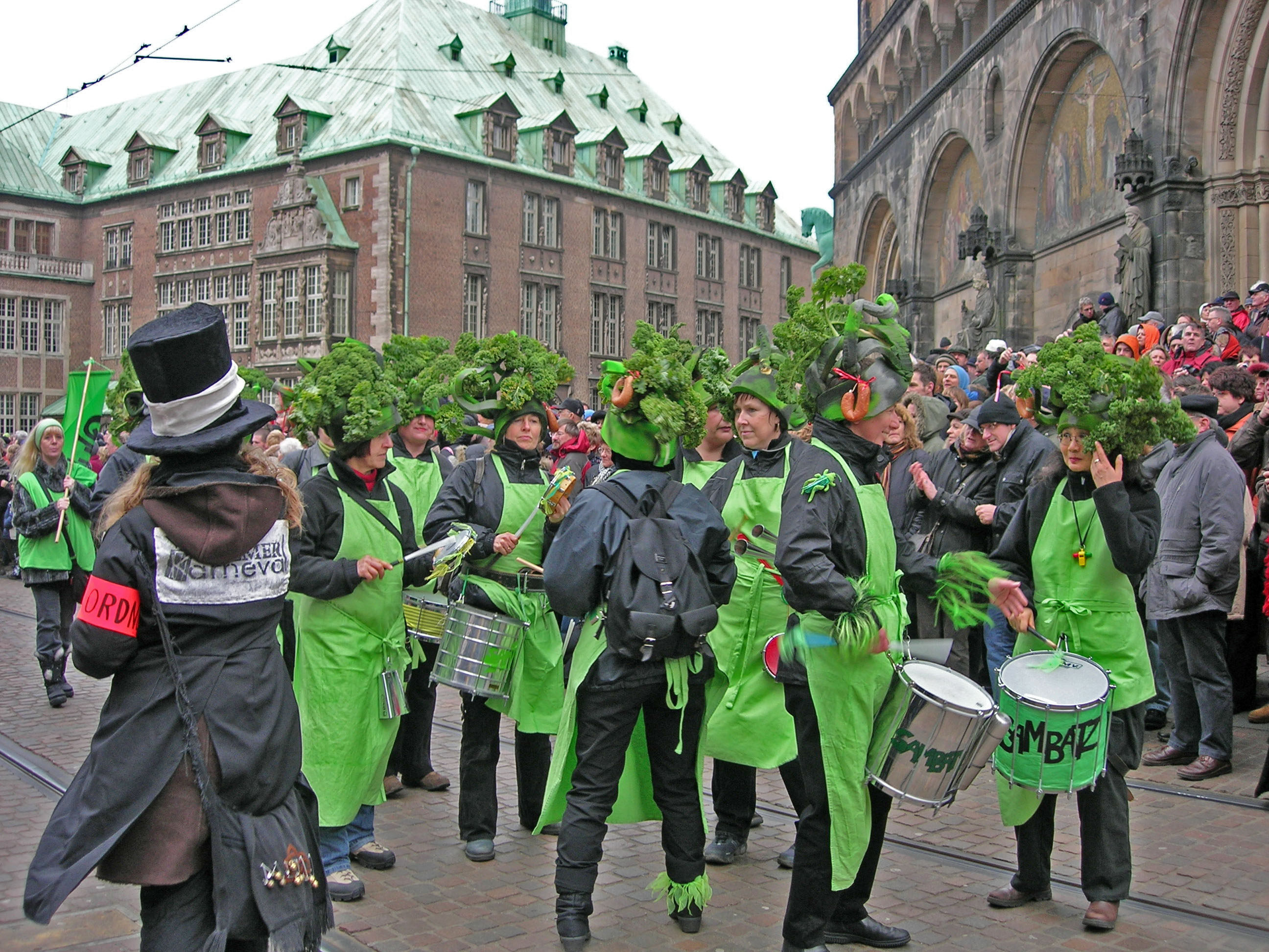 Samba-Karneval Bremen